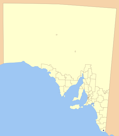 Map of LGAs, showing mount gambier council position. A Modification of user Astrokey44 original LGA map found at